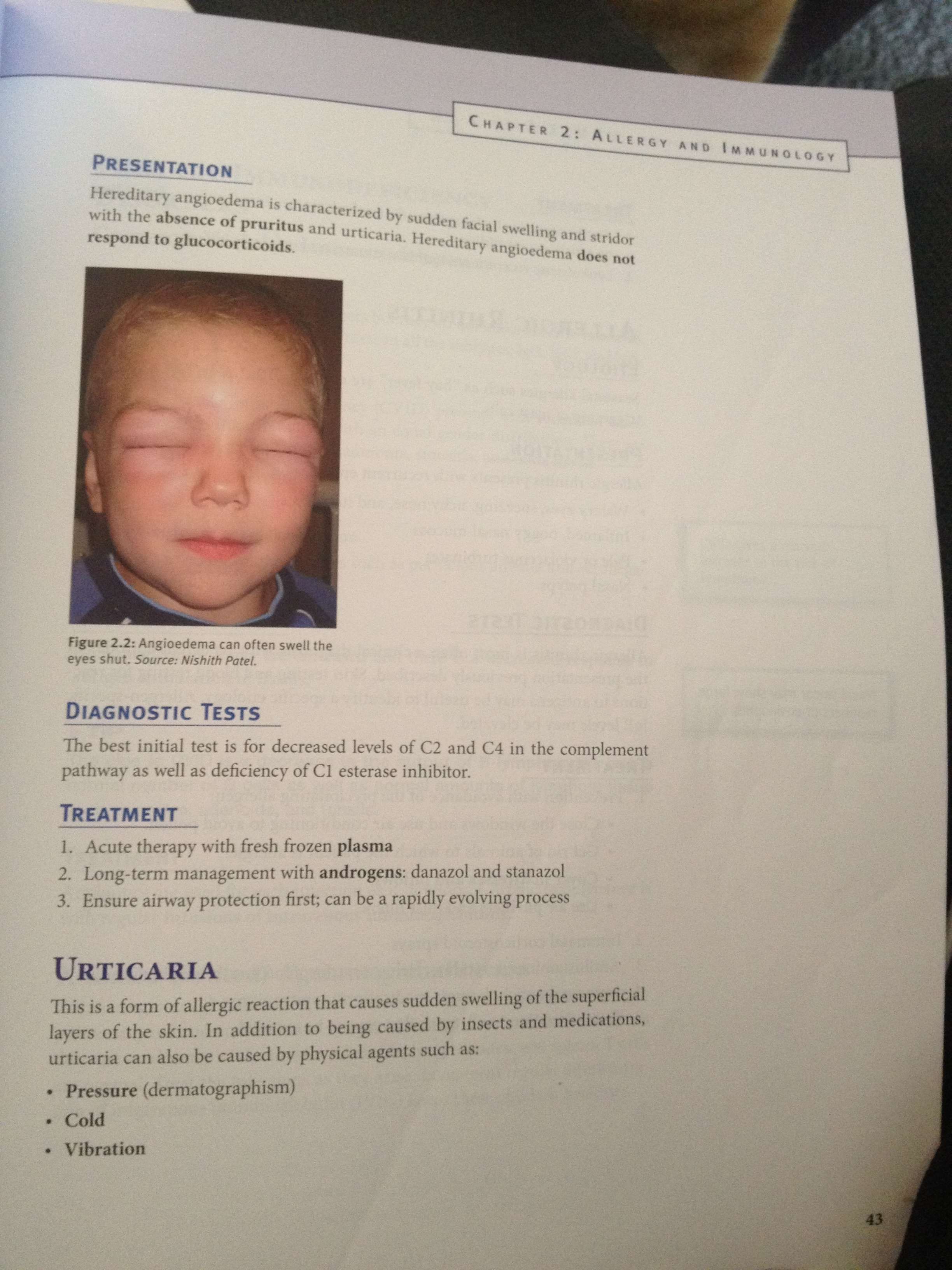 An example of plagarism. The picture is copied from Wikipedia without attribution (in fact the image is attributed to someone else).